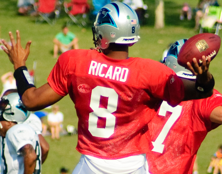 Lester Ricard and Jason Baker at the Carolina Panthers' training camp on 8/6/2008.